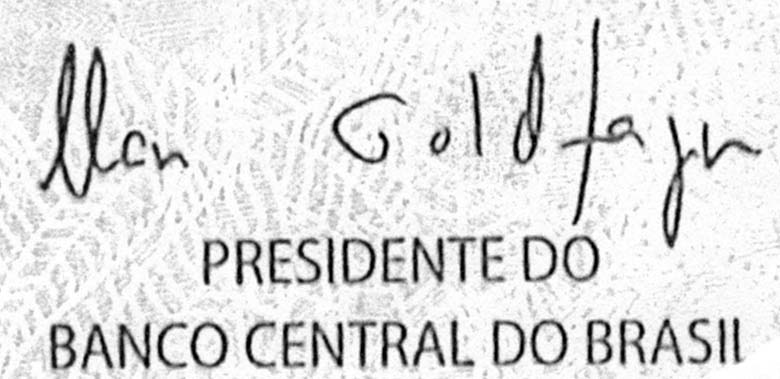 Ilan Goldfajn signature